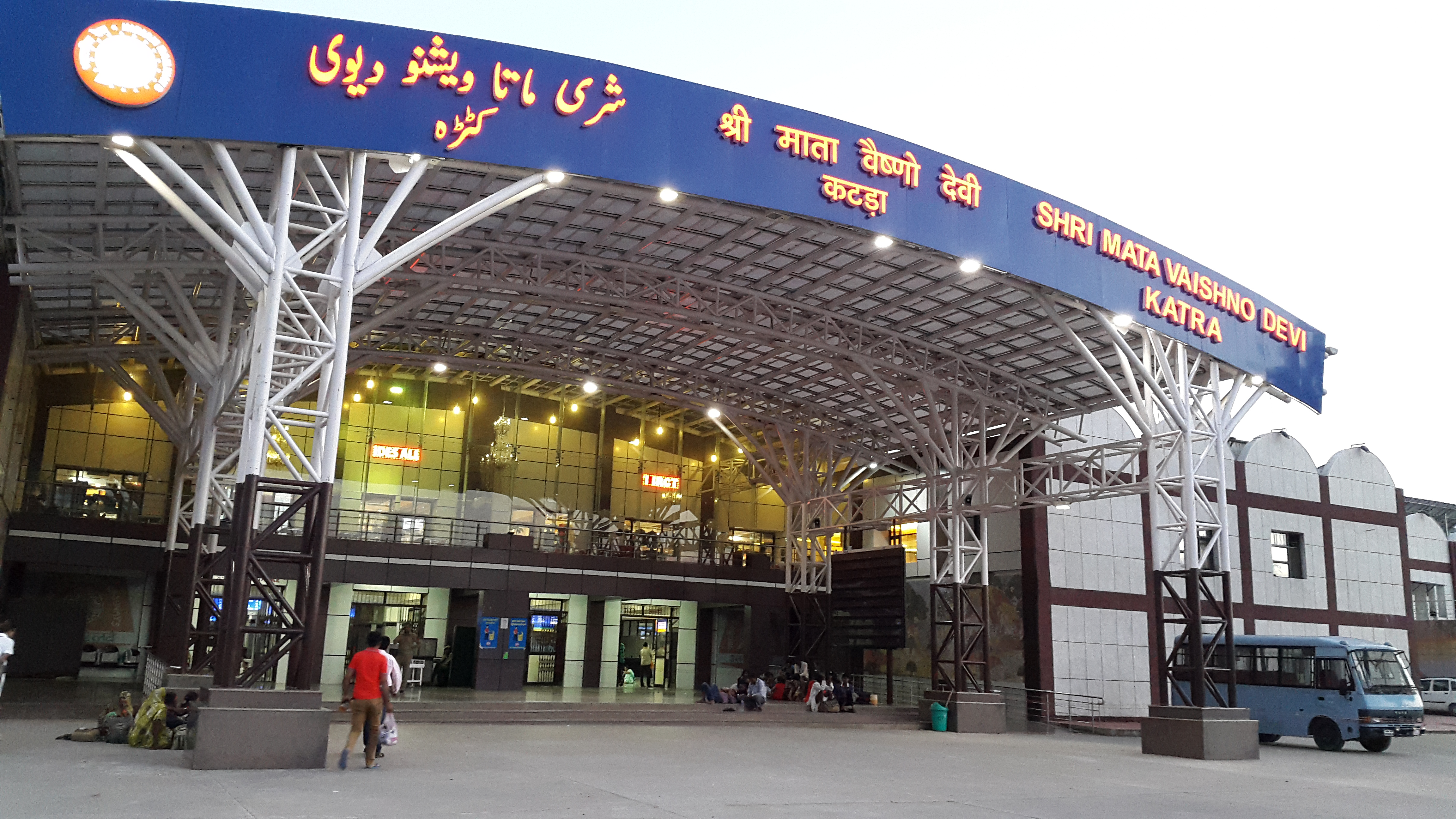 Katra Railway Station, Jammu, India.